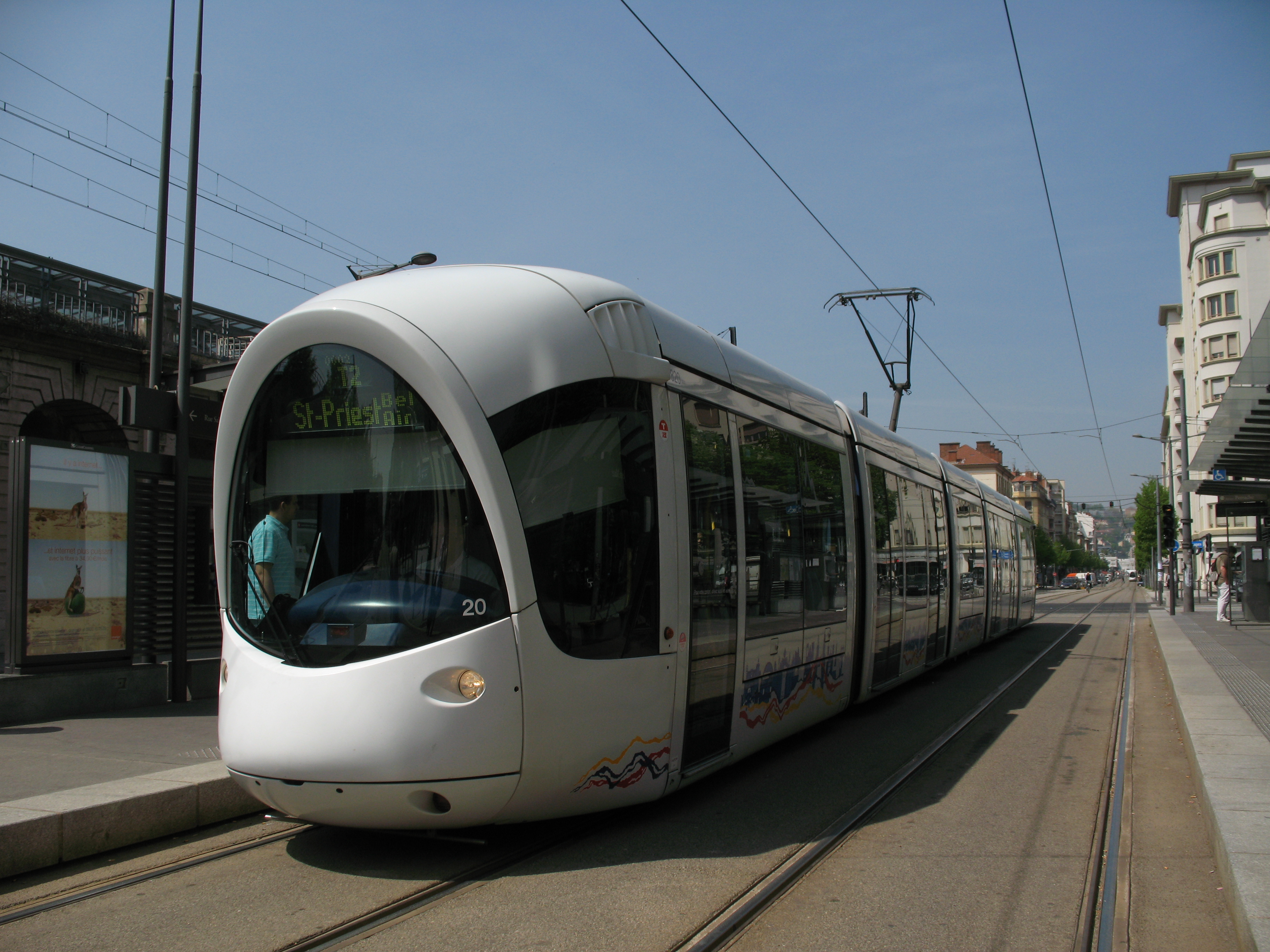 Alstom Citadis unit of TCL transportation system of Lyon - Line T2 at Jean Macé station